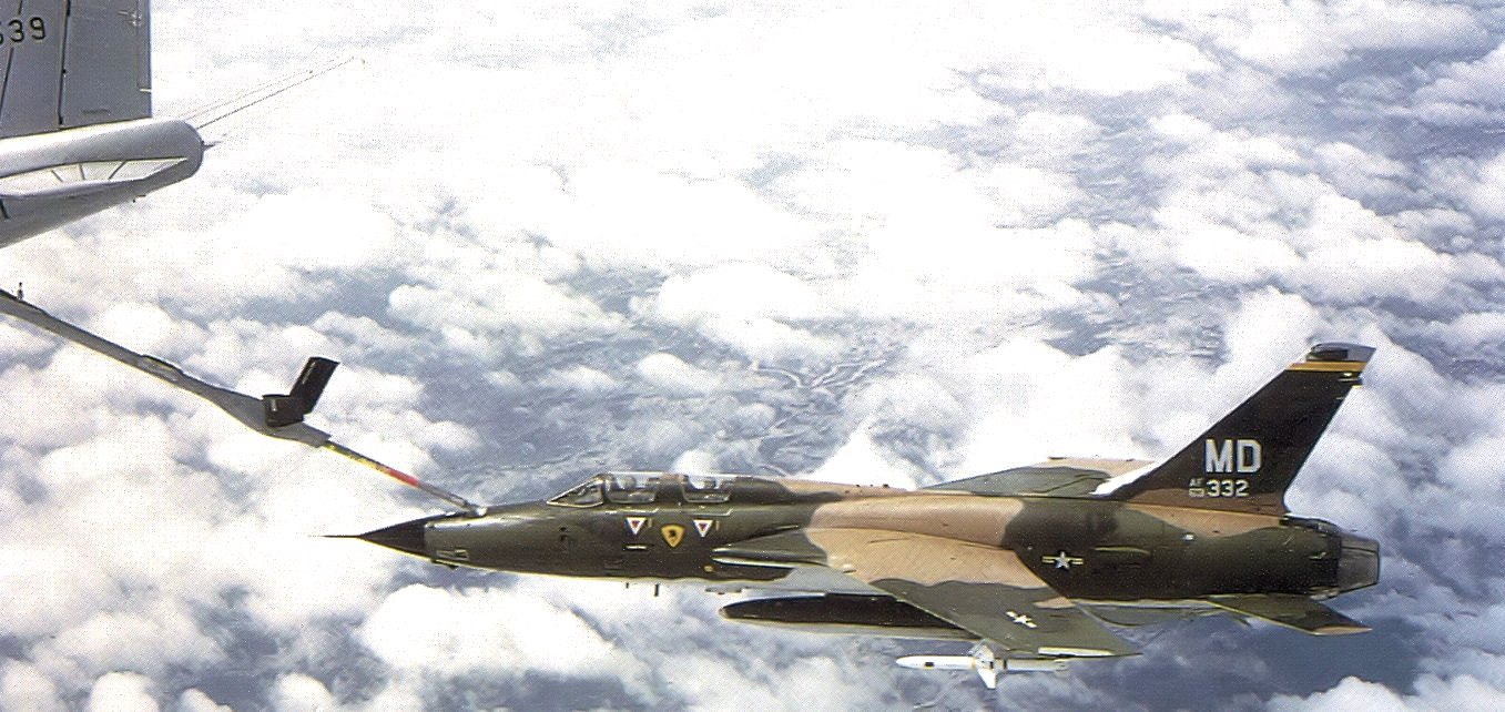 561st Tactical Fighter Squadron Republic F-105F-1-RE Thunderchief 63-8332 refueling from a KC-135, McConnell AFB, Kansas, 1968